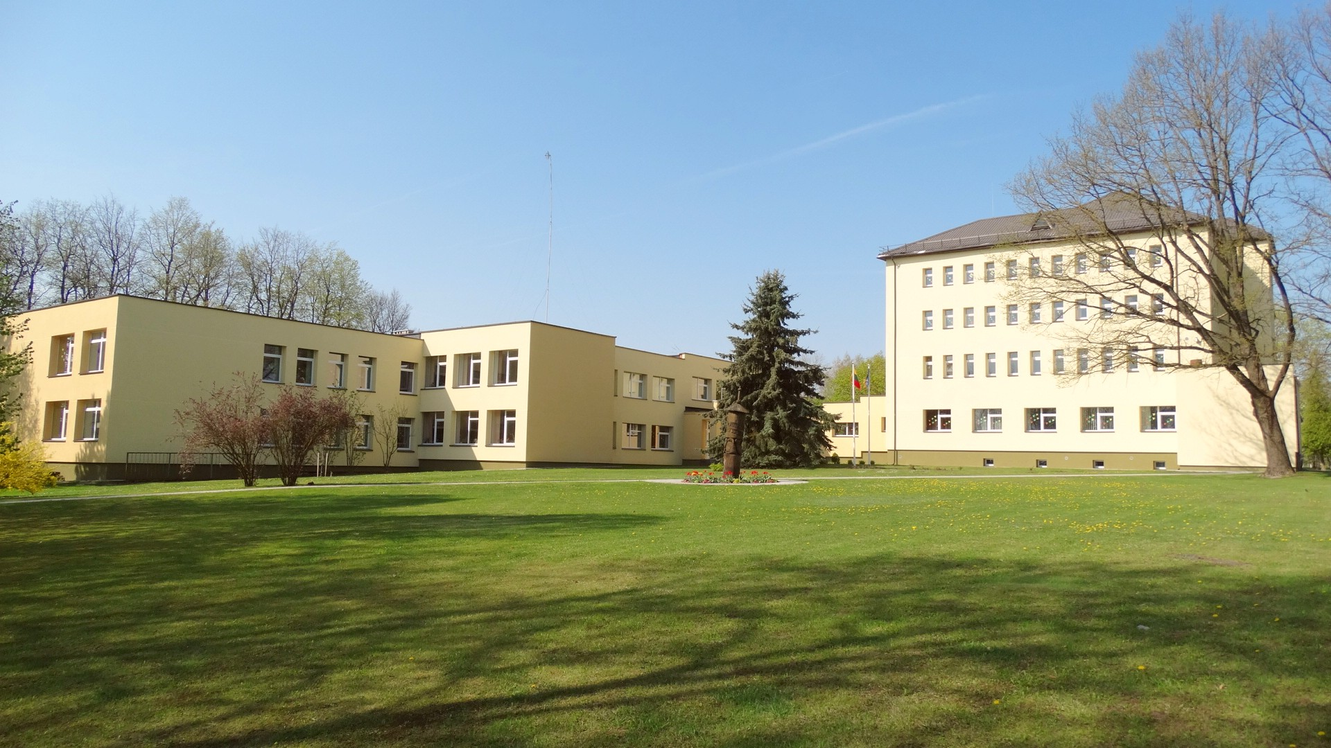 Krakės, gymnasium, Kėdainiai district, Lithuania